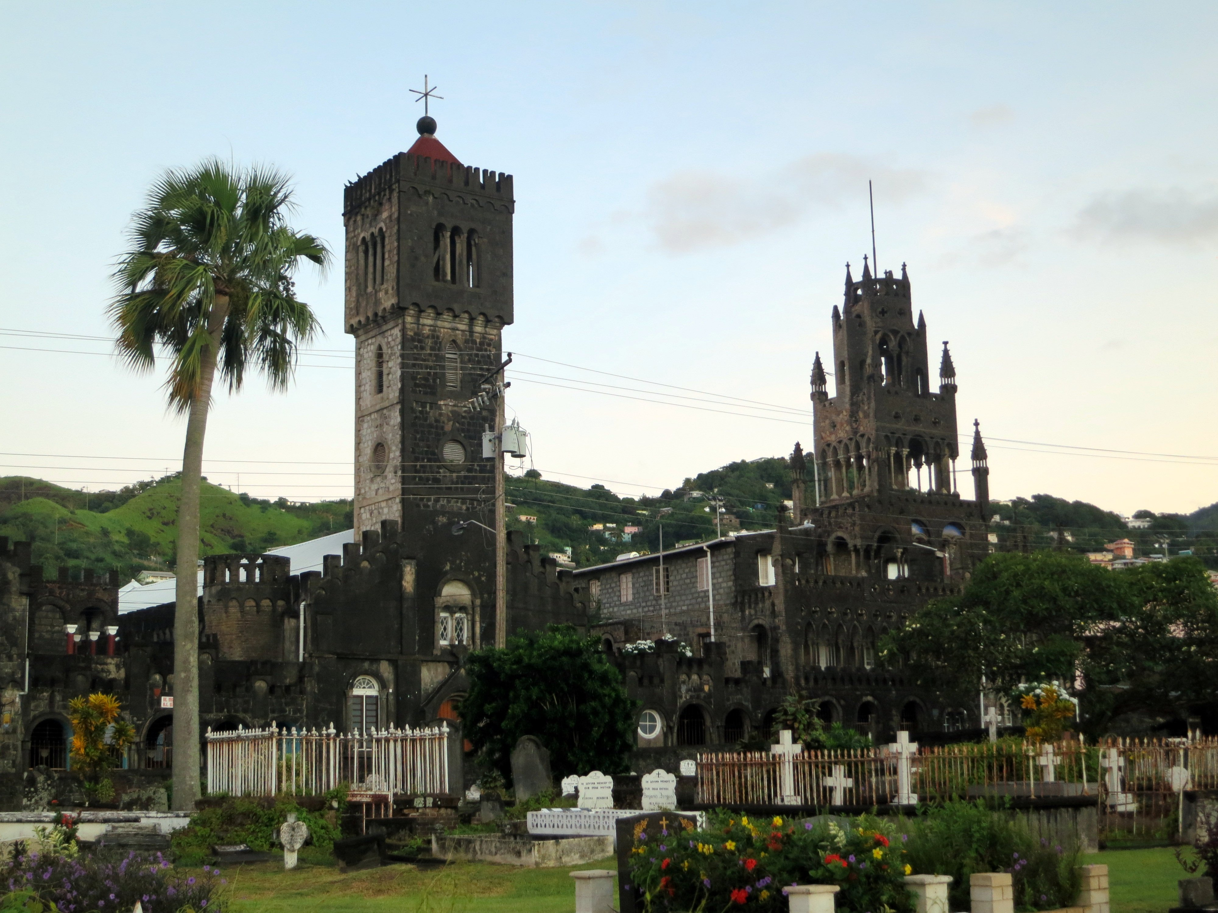 Kingstown - Cathedral of the Assumption